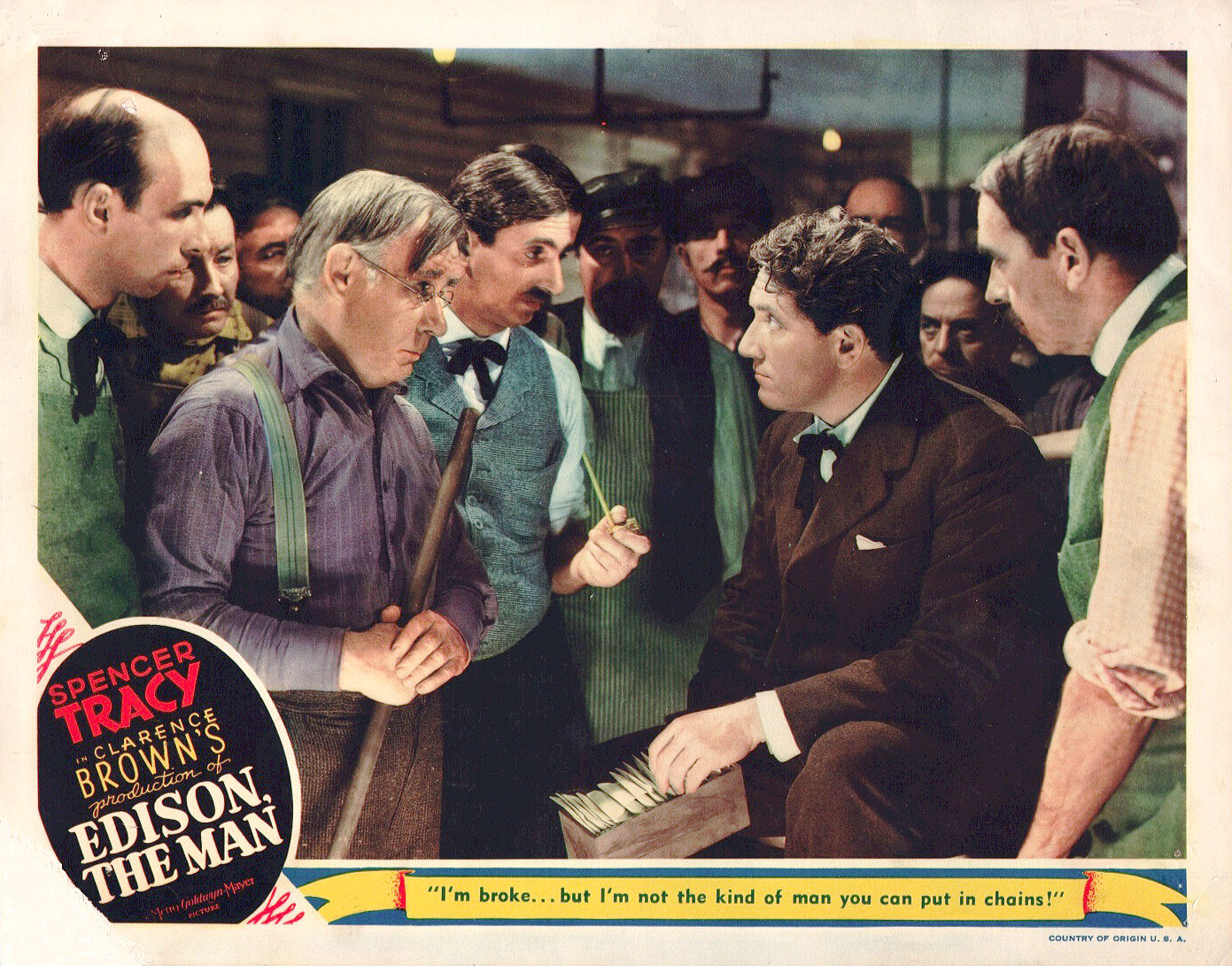 Lobby card for the American biographical film Edison, the Man (1940).